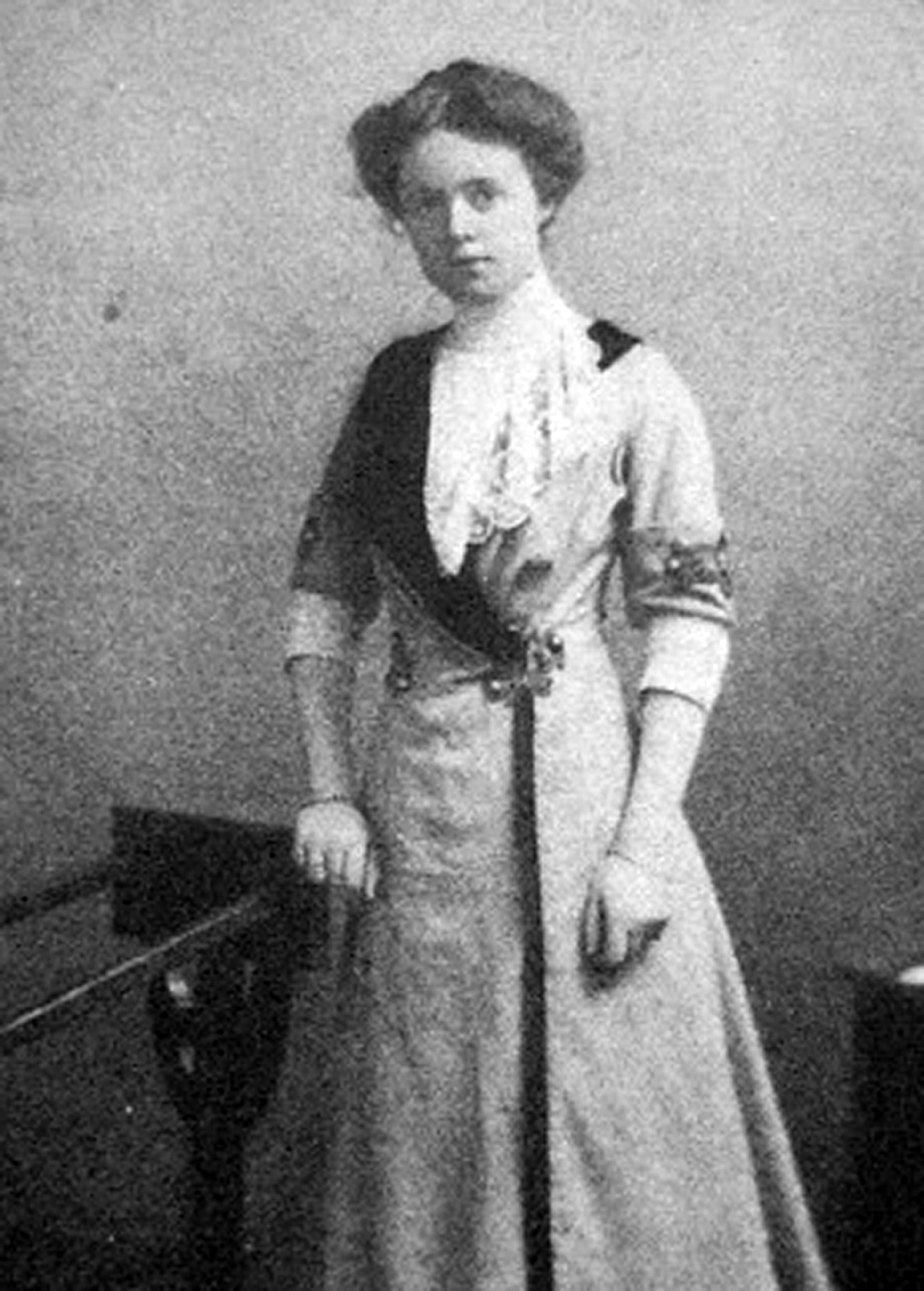 I. A. R. Wiley in Germany ca. 1910.